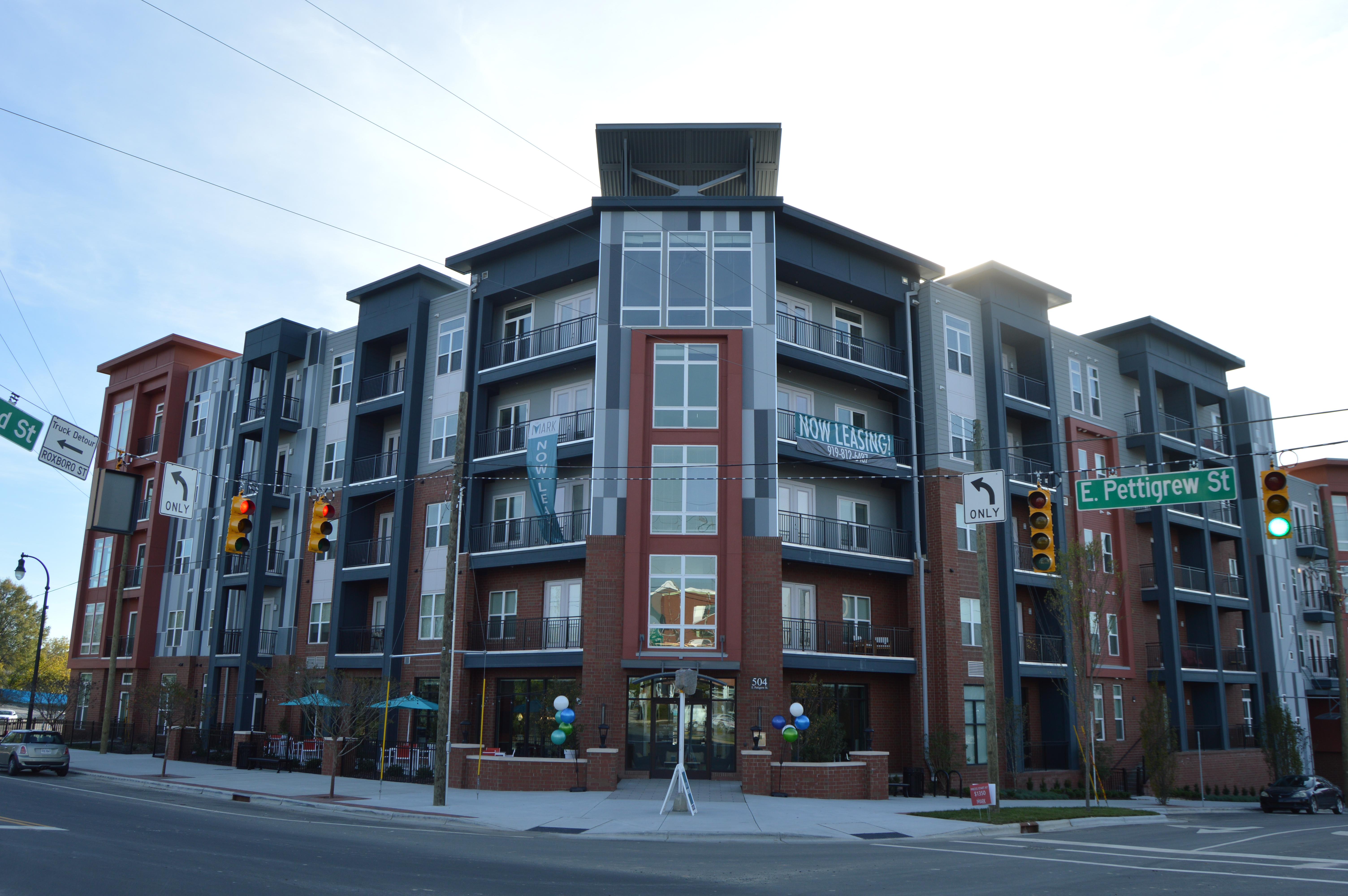 Front of the Mark at Durham One Apartments, located at 504 E. Pettigrew Street in Durham, North Carolina, United States. It occupies the site of the Durham Hosiery Mills No. 2-Service Printing Company Building, built in 1916 and listed on the National Register of Historic Places in 1985; although no longer standing, the Service Printing Company Building officially remains on the Register.